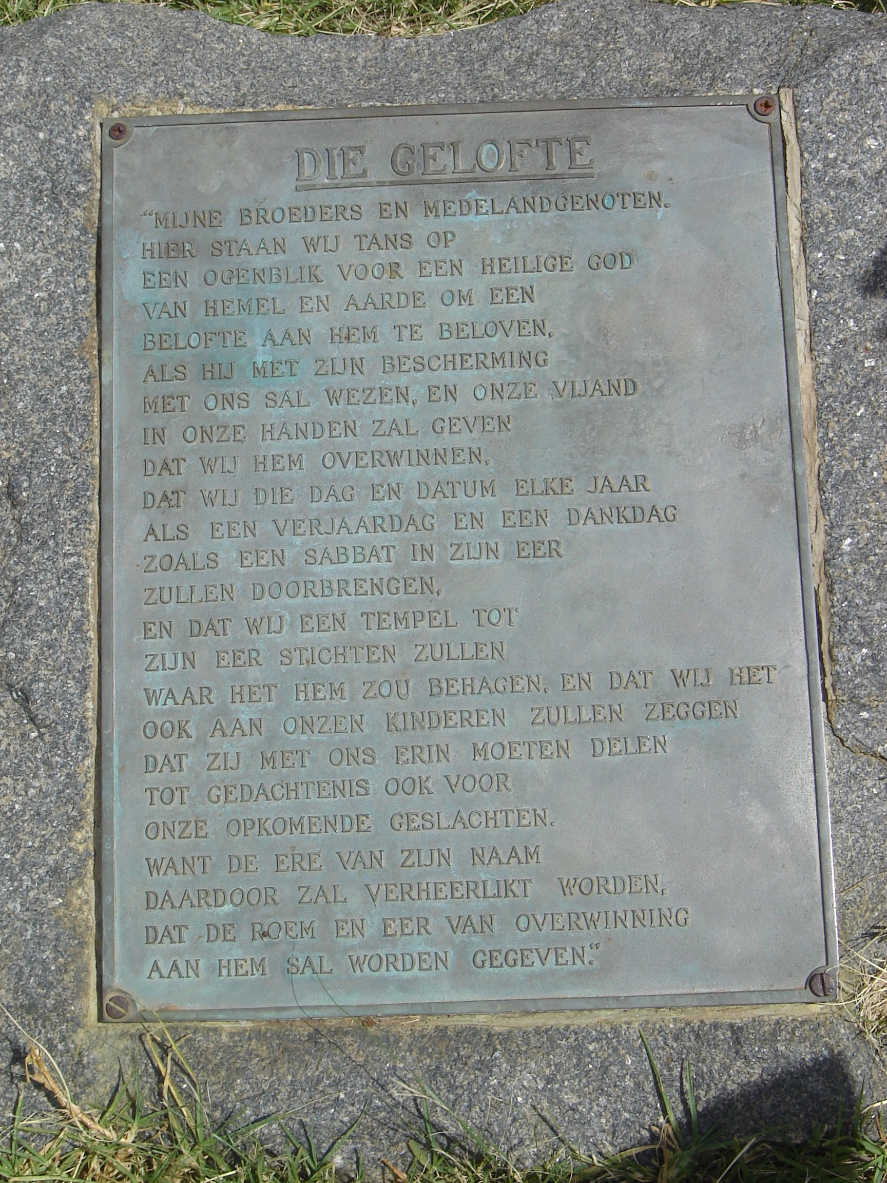 Plaque situated roughly in the middle of where the lager stood during the Battle of Blood River with the Vow taken by the Voortrekkers inscribed on it. The English version of the plaque reads as follows: THE VOW "MY BROTHERS AND FELLOW COUNTRYMEN WE STAND HERE NOW FOR A MOMENT BEFORE A HOLY GOD OF HEAVEN AND EARTH TO MAKE A PROMISE TO HIM, IF HE WOULD GIVE US HIS PROTECTION AND BE WITH US, AND GIVE OUR ENEMY INTO OUR HANDS SO THAT WE MAY DEFEAT THEM WE SHALL PASS THE DAY AND DATE EACH YEAR AS AN ANNIVERSARY AND A DAY OF THANKSGIVING IN HIS HONOUR LIKE A SABBATH. AND WE PROMISE THAT WE SHALL BUILD A TEMPLE TO HIS HONOUR AS IT SHALL PLEASE HIM, AND THAT WE SHALL TELL THIS OUR CHILDREN SO THAT THEY MAY SHARE IN THIS WITH US TO REMEMBRANCE ALSO FOR OUR RISING GENERATIONS SO THAT THE GLORY OF HIS NAME MAY BE SANCTIFIED THEREBY AND THE GLORY AND HONOUR OF VICTORY SHALL BE GIVEN UNTO HIM."